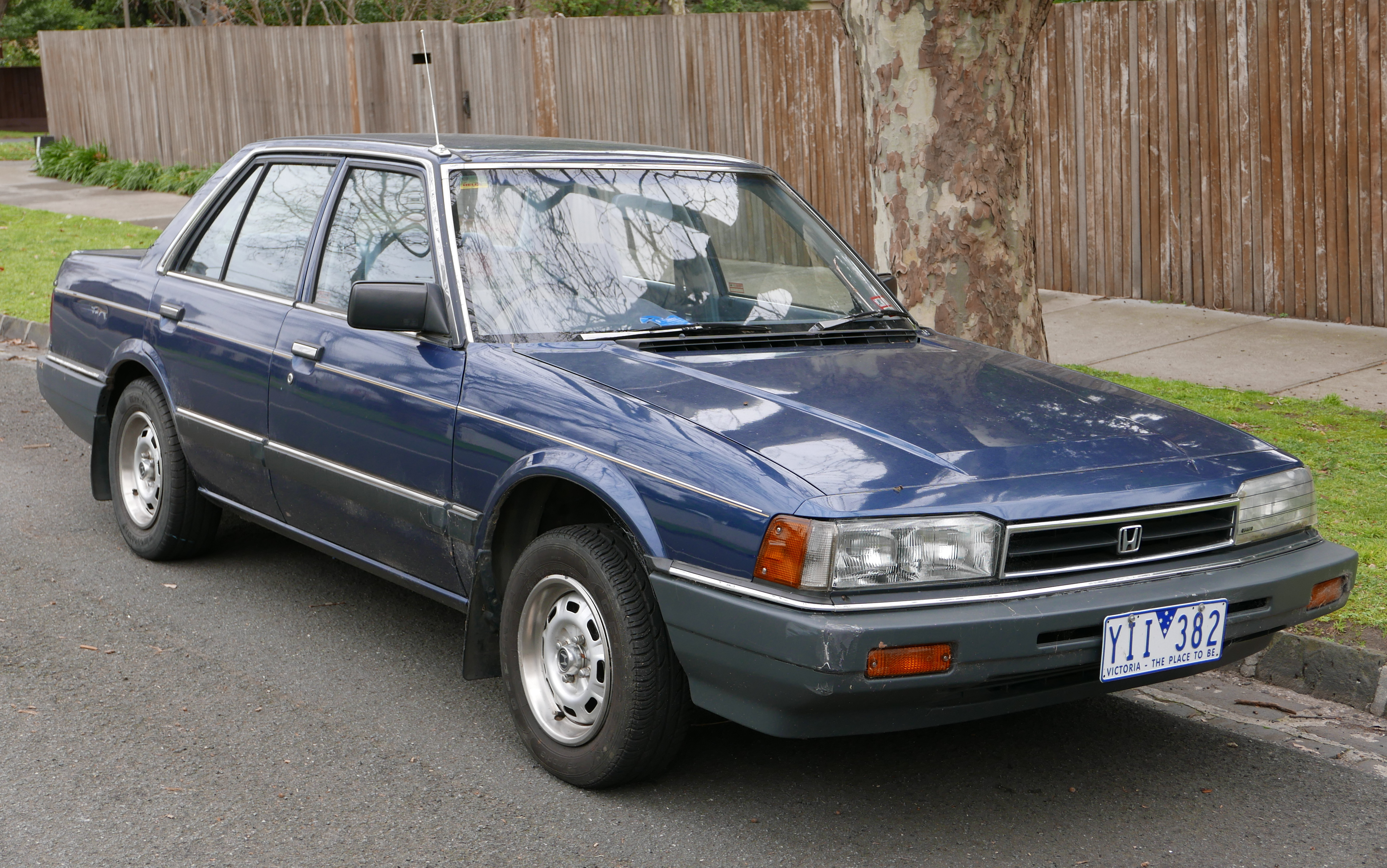 1985 Honda Accord EX sedan. Photographed in Kew, Victoria, Australia. Vehicle registration enquiry results Jurisdiction Victoria Registration YII382 Chassis code Not available Engine code ET12502331 Compliance date Not available Year of manufacture 1985